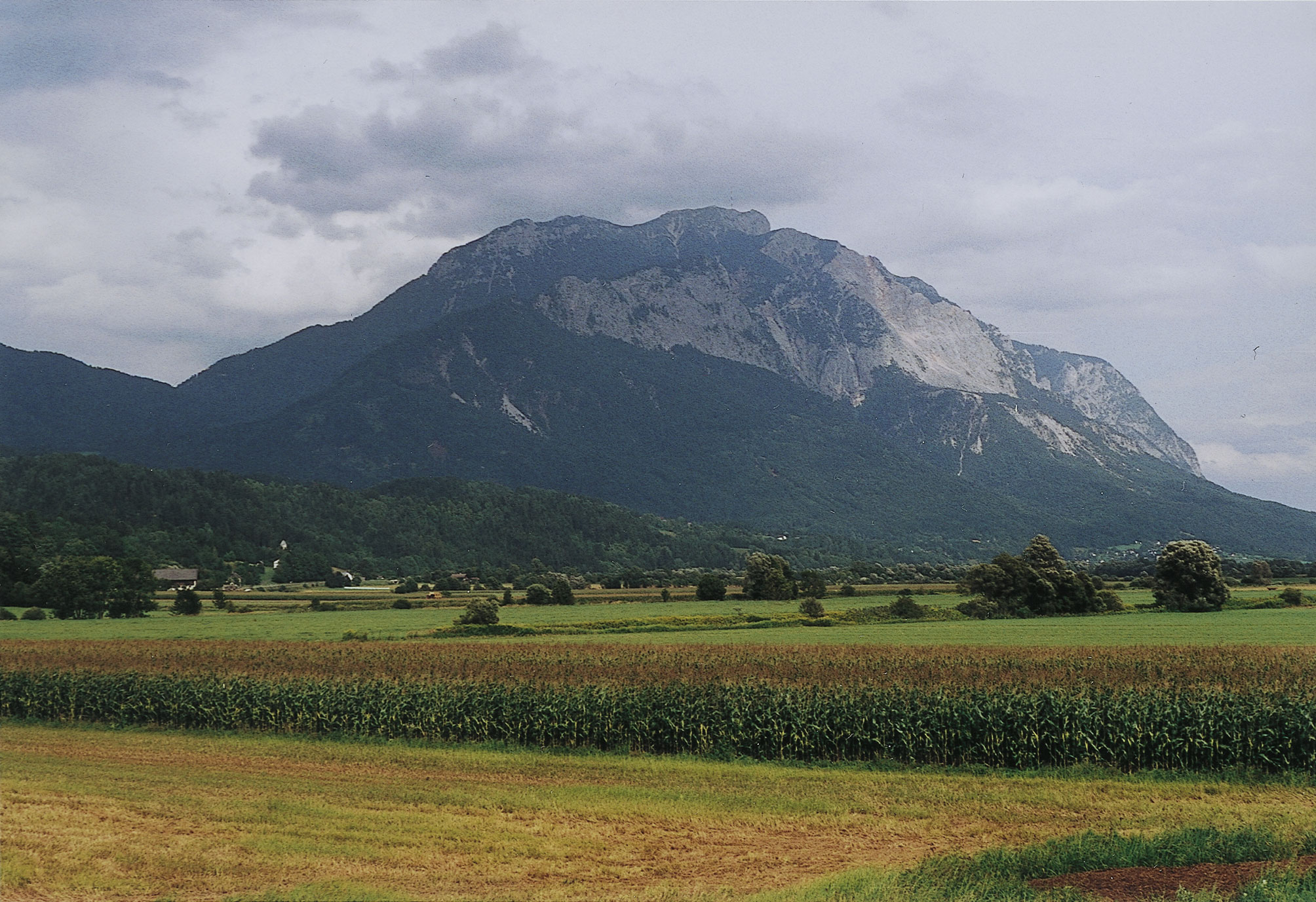 Dobratsch (Villacher Alpe) seen from Gailtal.